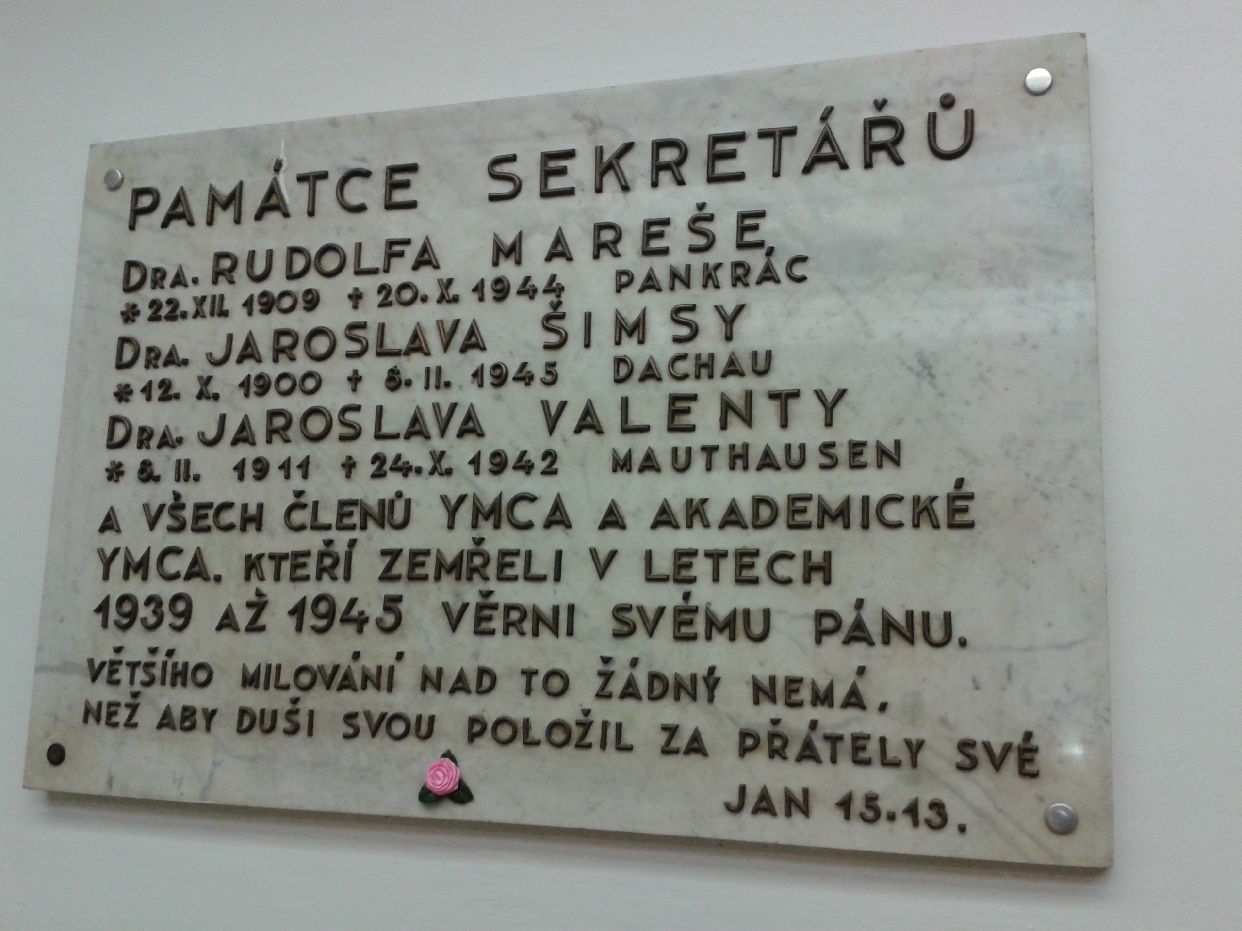 Memorial Plaque "Victims of WW2" is freely accessible and is located in the lobby of the palace YMCA building at the adress: Na Poříčí 1041/12; 110 00 Prague 1 - Nové Město (Czech republic). The memorial plaque recalls the three Secretary of the YMCA, which were: Rudolf Mareš (* 1909 - † 1944), Jaroslav Šimsa (* 1900 - † 1945) and Jaroslav Valenta (* 1911 - † 1942), who died in the years of oppression 1939 to 1945 and who actively participated on the anti-Nazi resistance in protectorate.